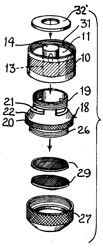 Assembly diagram showing the parts of a faucet aerator.